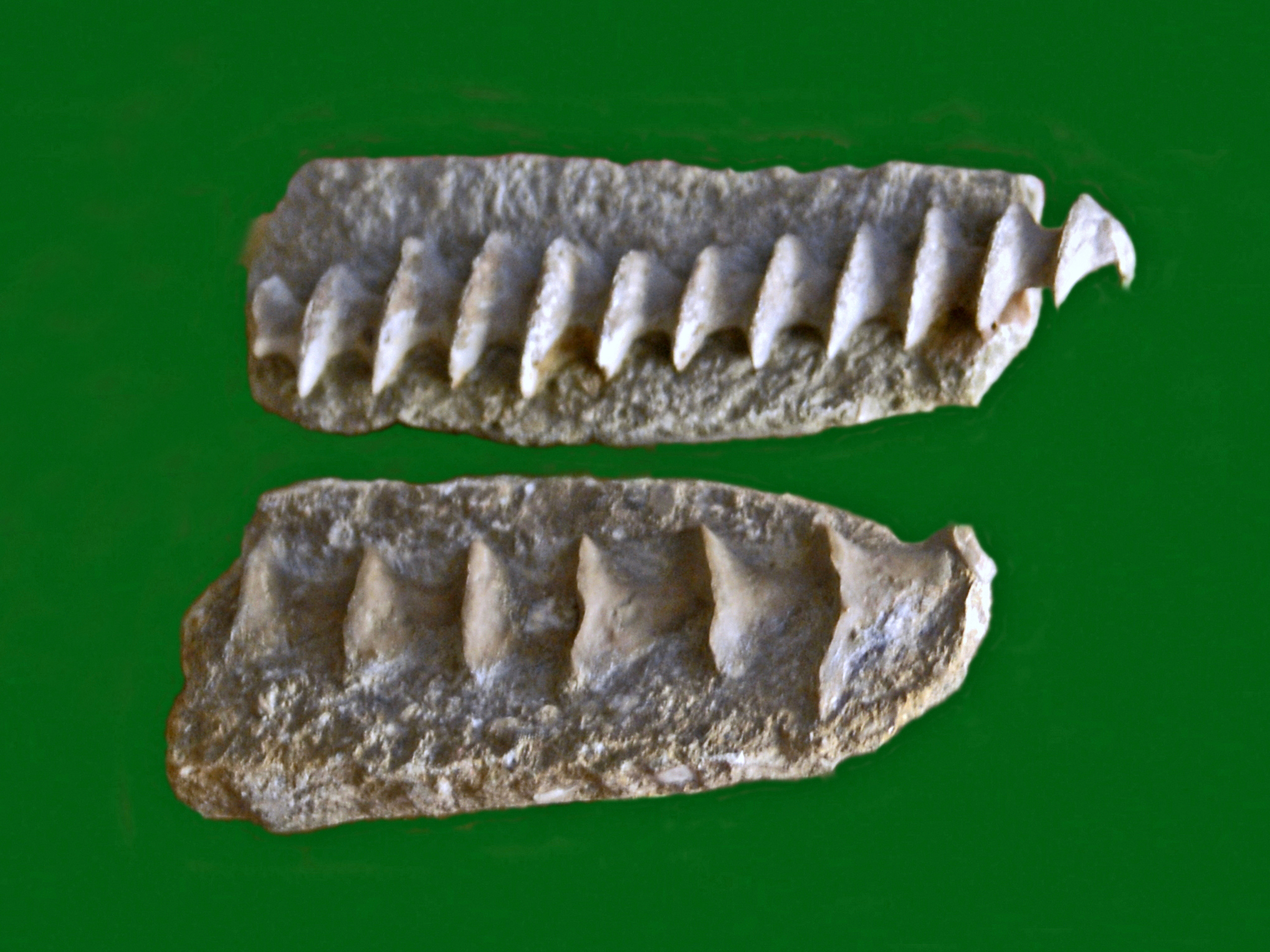 Fossil stalks of Archimedes from Illinois, on display at Gallery of Paleontology and Comparative Anatomy, Paris.